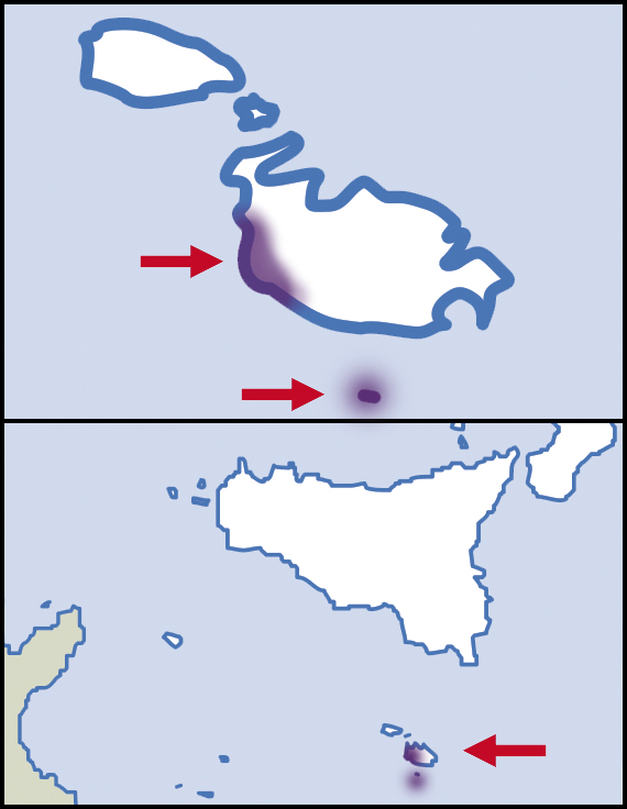 Lampedusa imitatrix (Boettger, 1879). Distributional range in Europe, scientific state of knowledge of 2012. Source description in English. Light colour indicated rare occurrences or regions where the species could eventually be expected to occur. Dark colour indicated relatively reliable occurrences, as well as regions where the species was expected to occur, and where the species was not known to be extremely rare. Dark colour indications were not necessarily based on published records. Species summary in AnimalBase